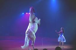 Cirque Arlette Gruss.